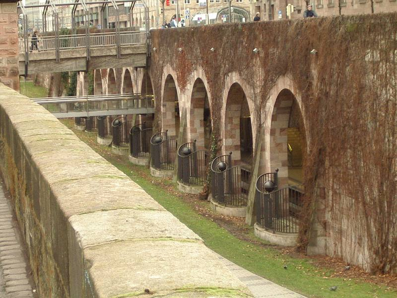 Nuremberg's underground station Opernhaus, line U2.